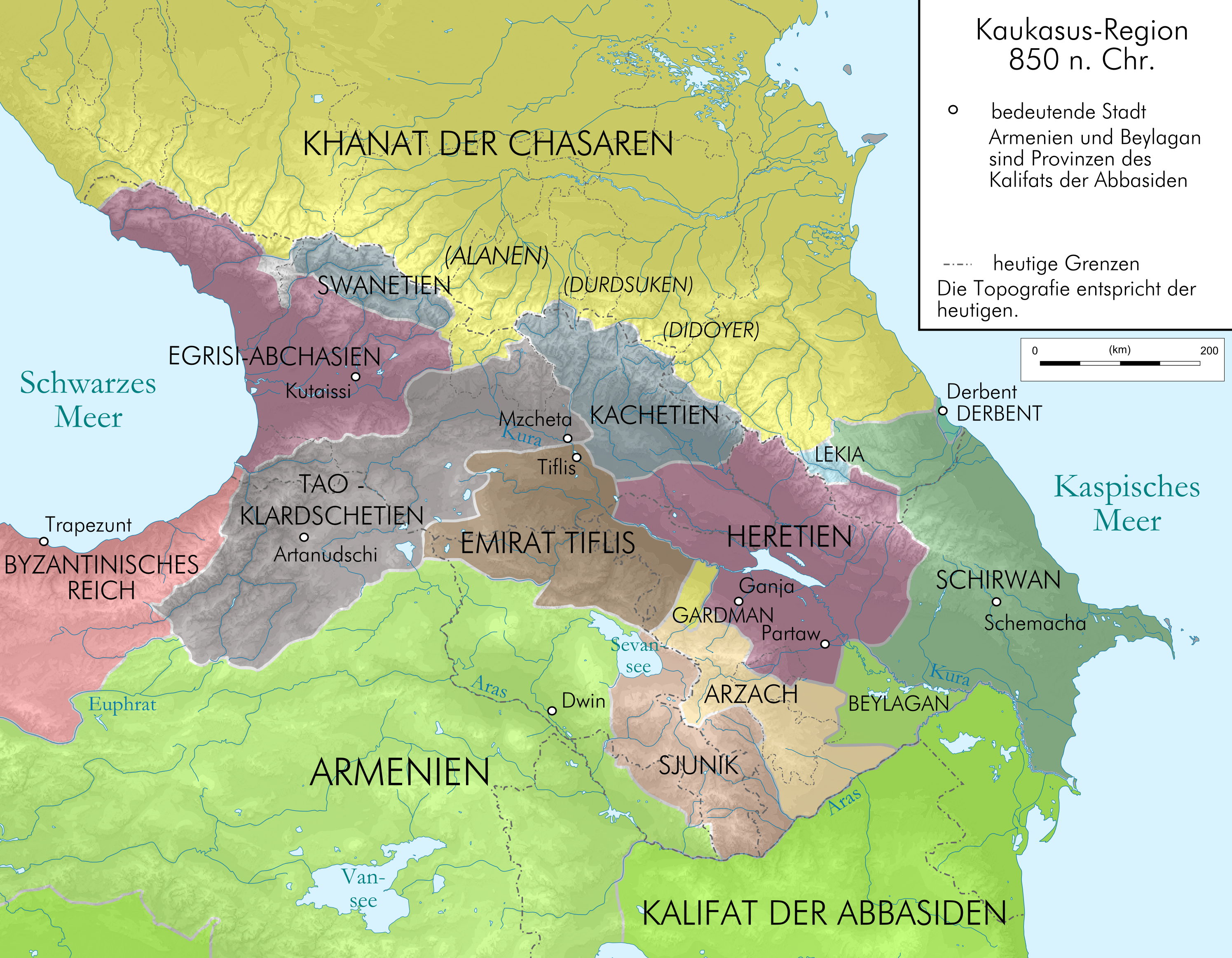 Map of Caucasus Region around 850 AD in German, sources are Putzger historischer Weltatlas Ausgabe 2005; Heinz Fähnrich: Geschichte Georgiens von den Anfängen bis zur Mongolenherrschaft. Shaker, Aachen 1993, ISBN 3-86111-683-9; File:Geom-0150bc-0600ad.jpg ; ; Atlas der Weltgeschichte. Bechtermünz Verlag, 1997, File:Arcax.jpg